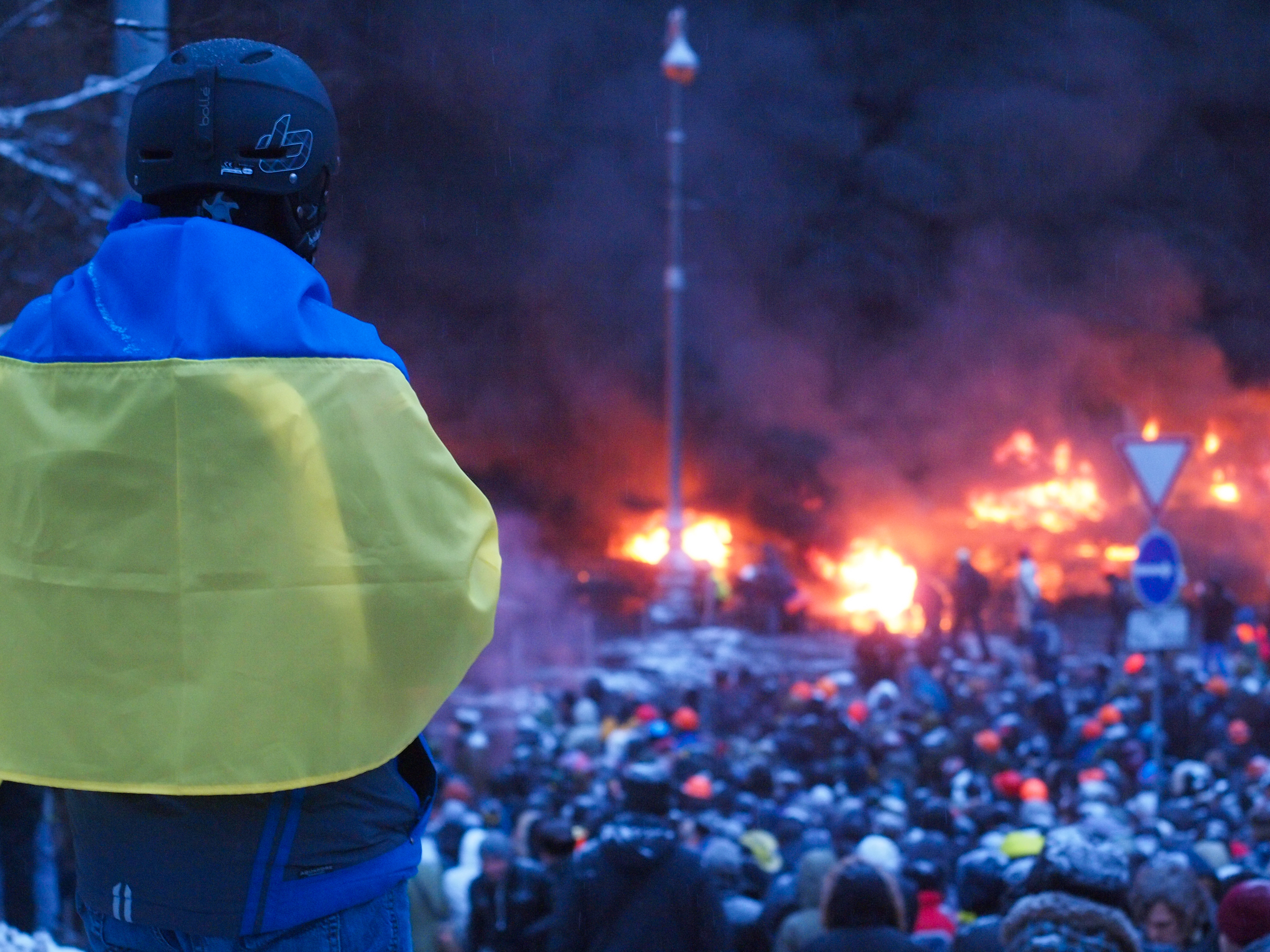 Protests on Hrushevskyi street, Kiev, 22 January 2014